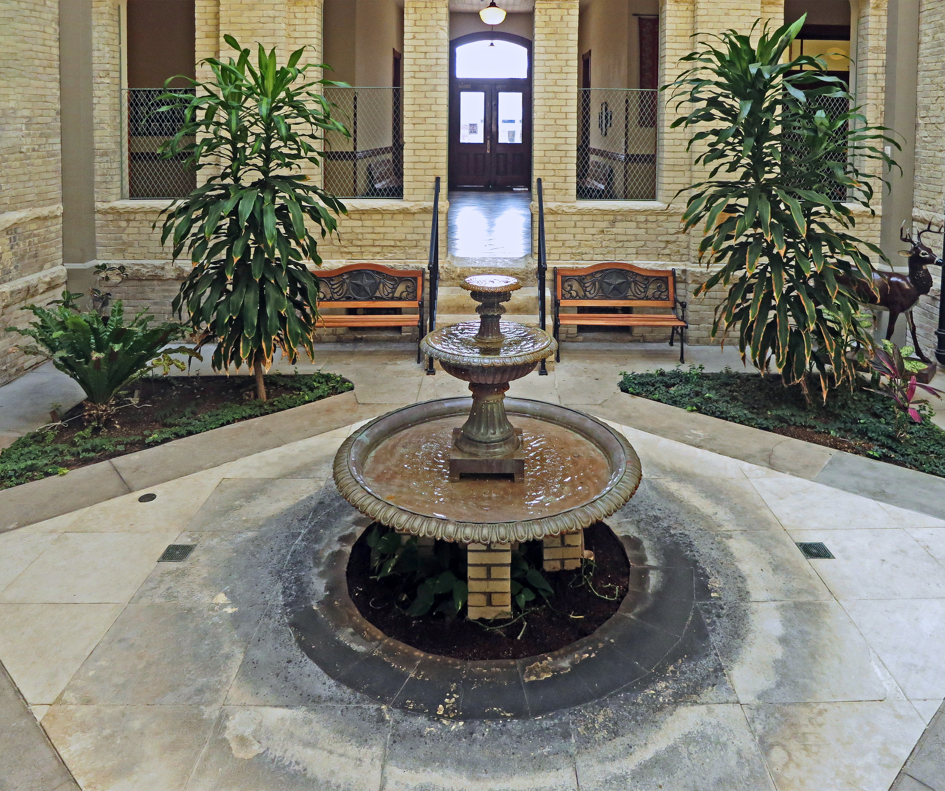 Atrium inside the Fayette County Texas Courthouse